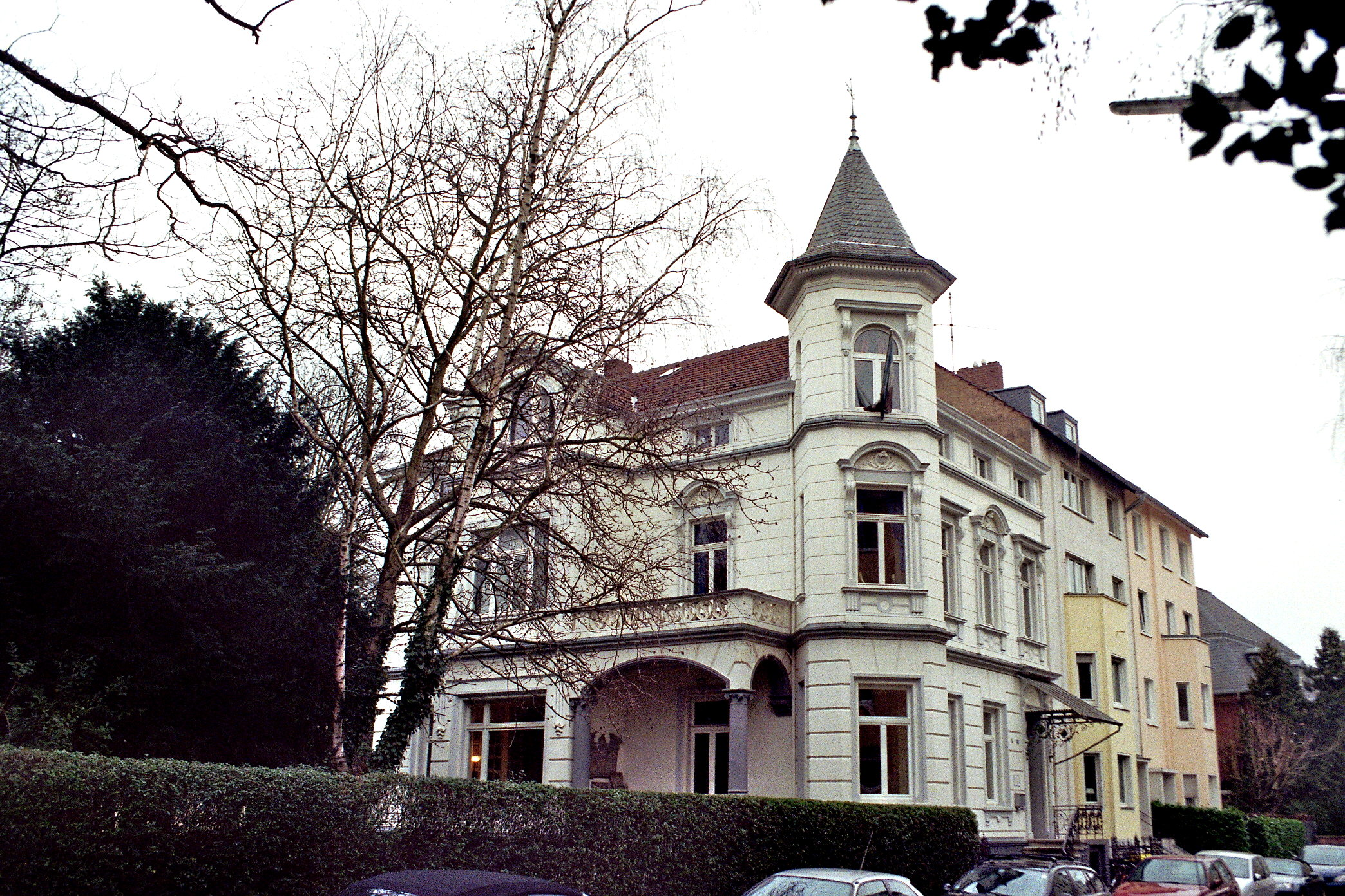 House of student fraternity Corps Saxonia Bonn, in Bonn/Germany, Haydnstrasse 8